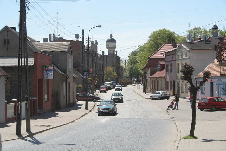 Trzemeszno (Poland), Mickiewicza Str.